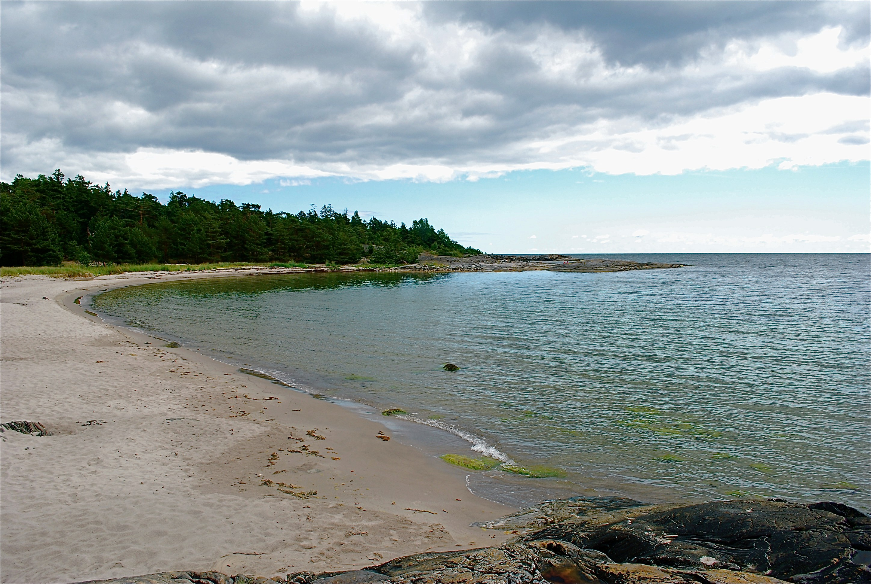 The beach Storsand ("Big/Great sand") at Ålö island, Stockholm archipelago